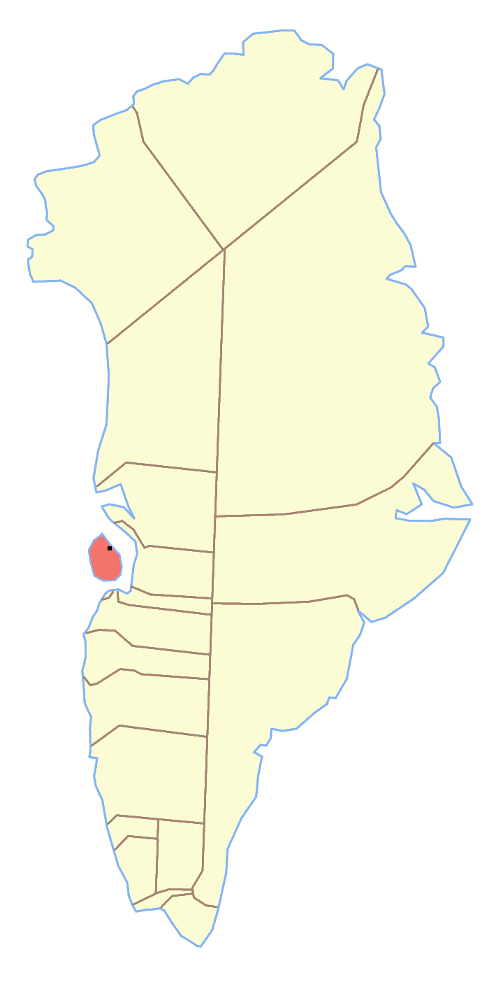 Map showing the village Qullissat in Greenland